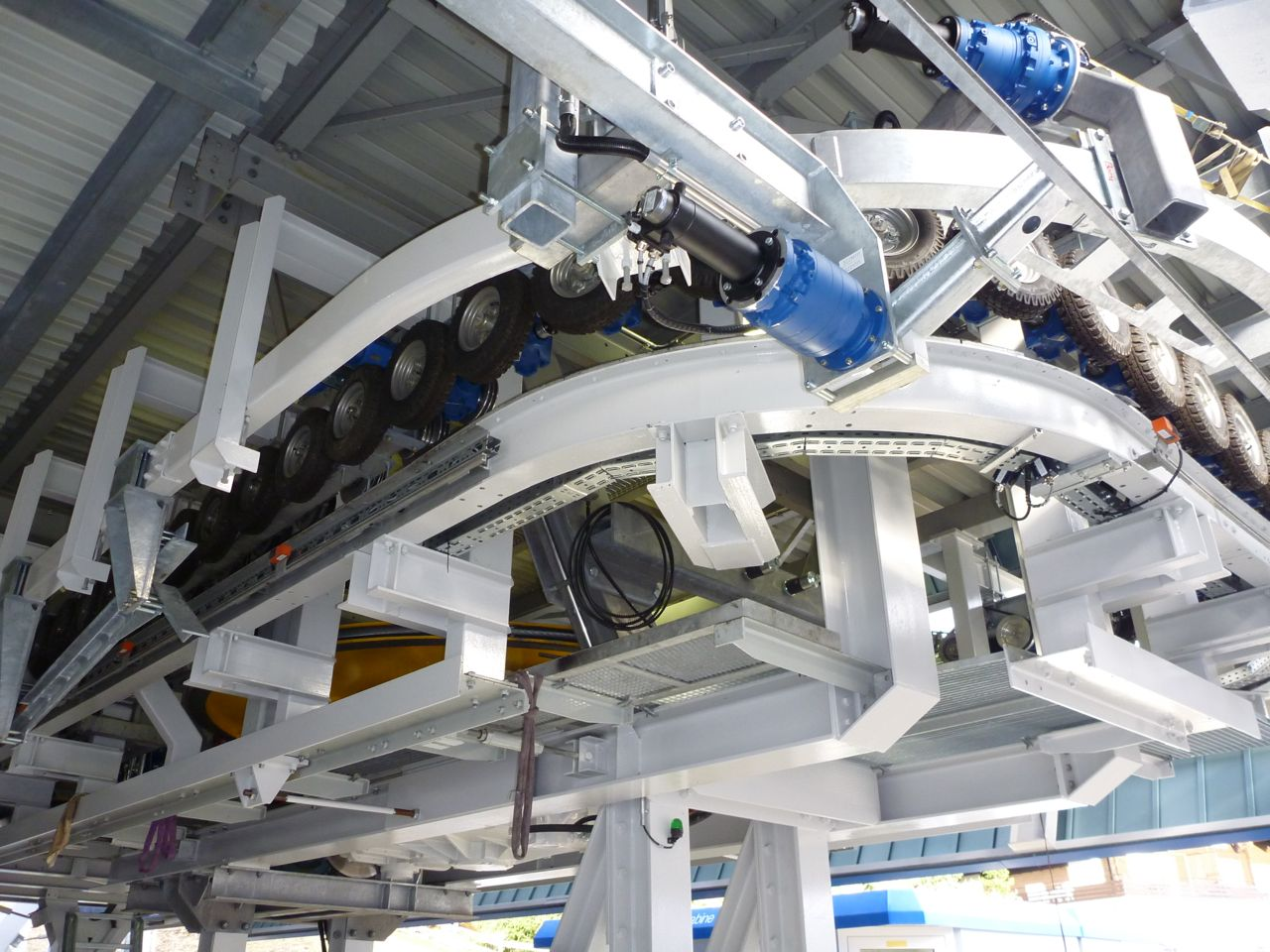 Valley station of gondola lift "Kulm" at Arosa/Switzerland